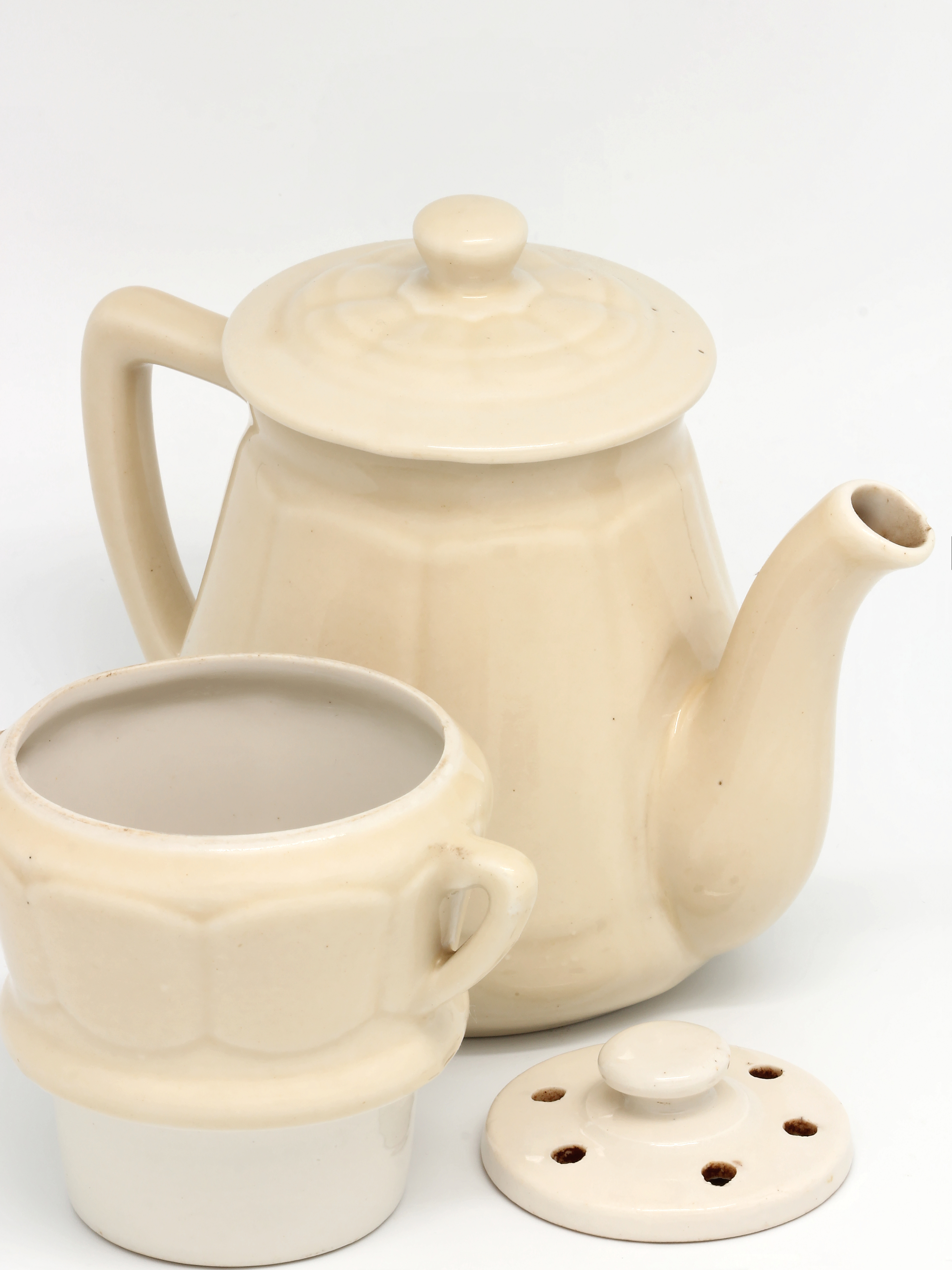 Coffeemaker.